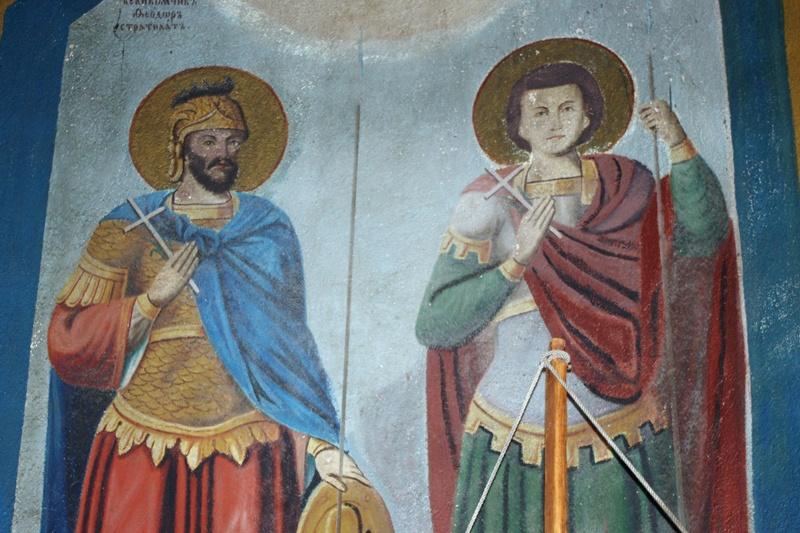 Fresco in Saint George Church, Reselets, Bulgaria.